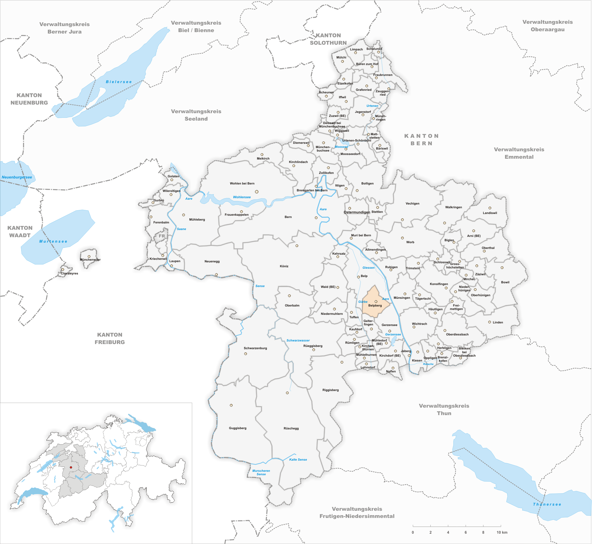 Municipality Belpberg